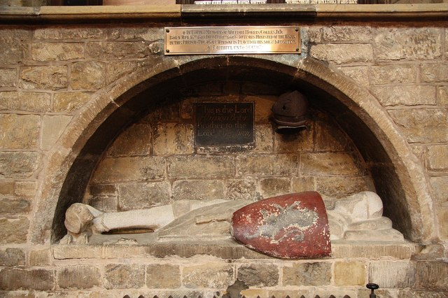 Crusader knight Tomb for a cross-legged knight c1300 in St.Mary's church, thought to be Hamon Belers, a relative of the de Mowbrays